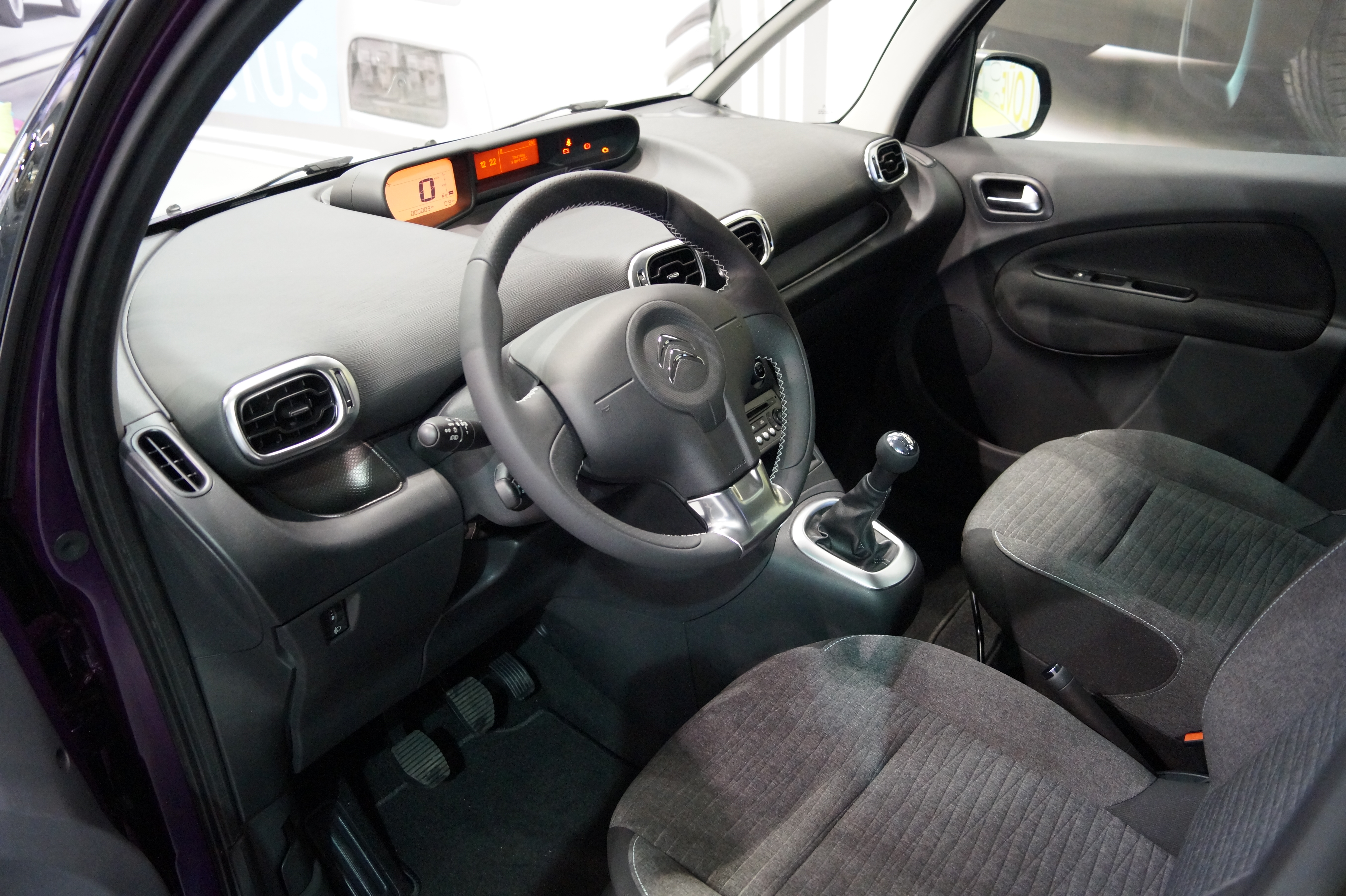 The making of this document was supported by Wikimedia Polska Association, within Wikigrant no. WG 2015-19. Wnętrze Citroëna C3 Picasso na Motor Show Poznań 2015